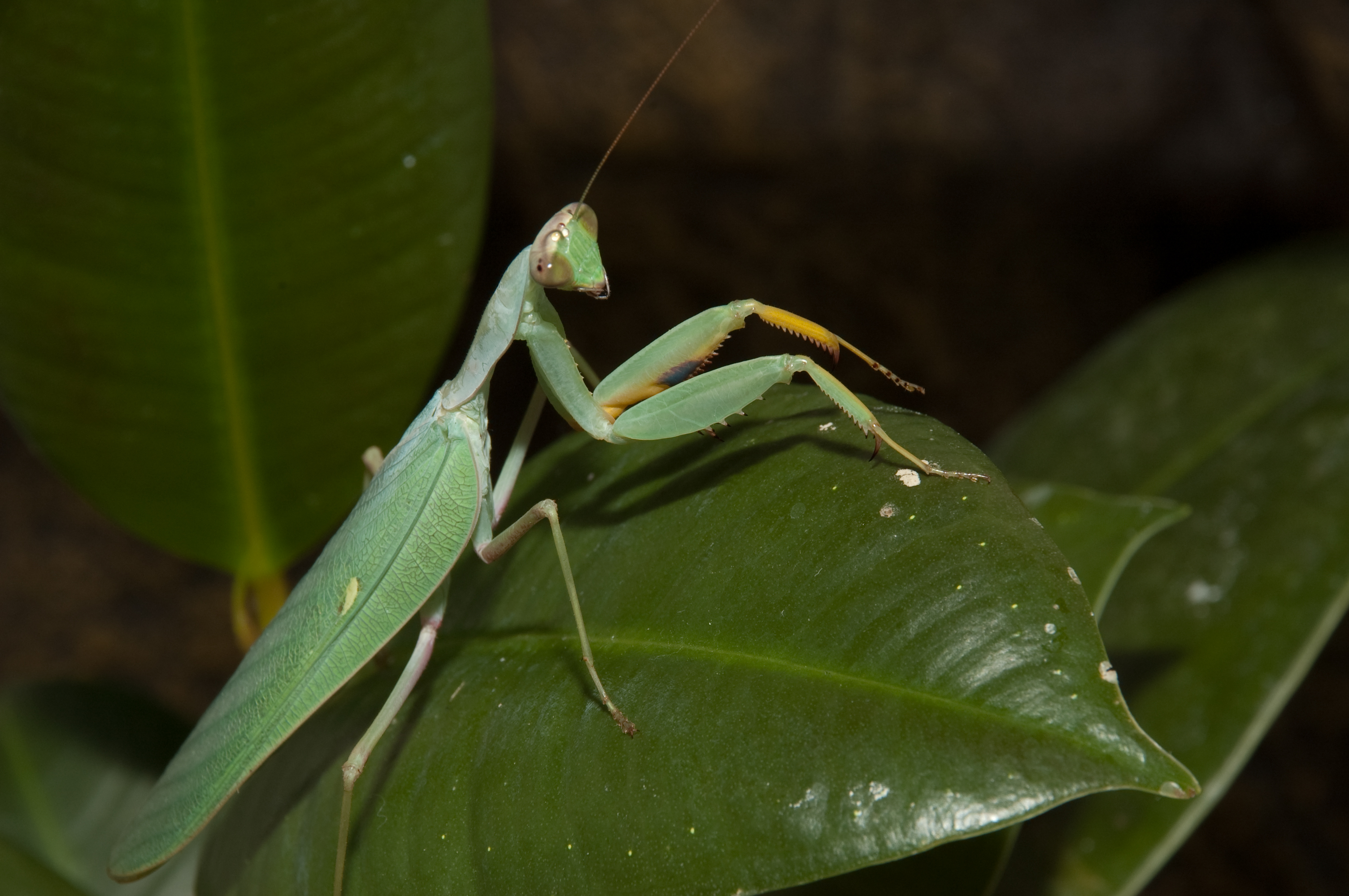 A close up of a sphodromantis baccettii. This photo shows the blue/black spot on the raptoral legs.